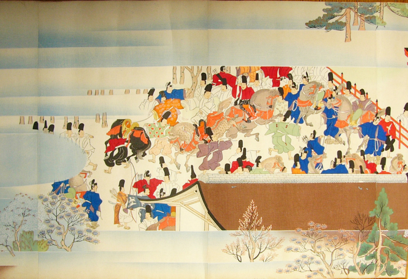 Detail of a scene of Illustrated scroll of Kasuga Gongen Kenki Emaki. By Takashina Takakane. 2nd voleme of 20 handscrolls, ink and colour on silk. 40cm height, Kamakura period, dated 1309. Japan Imperial Collection